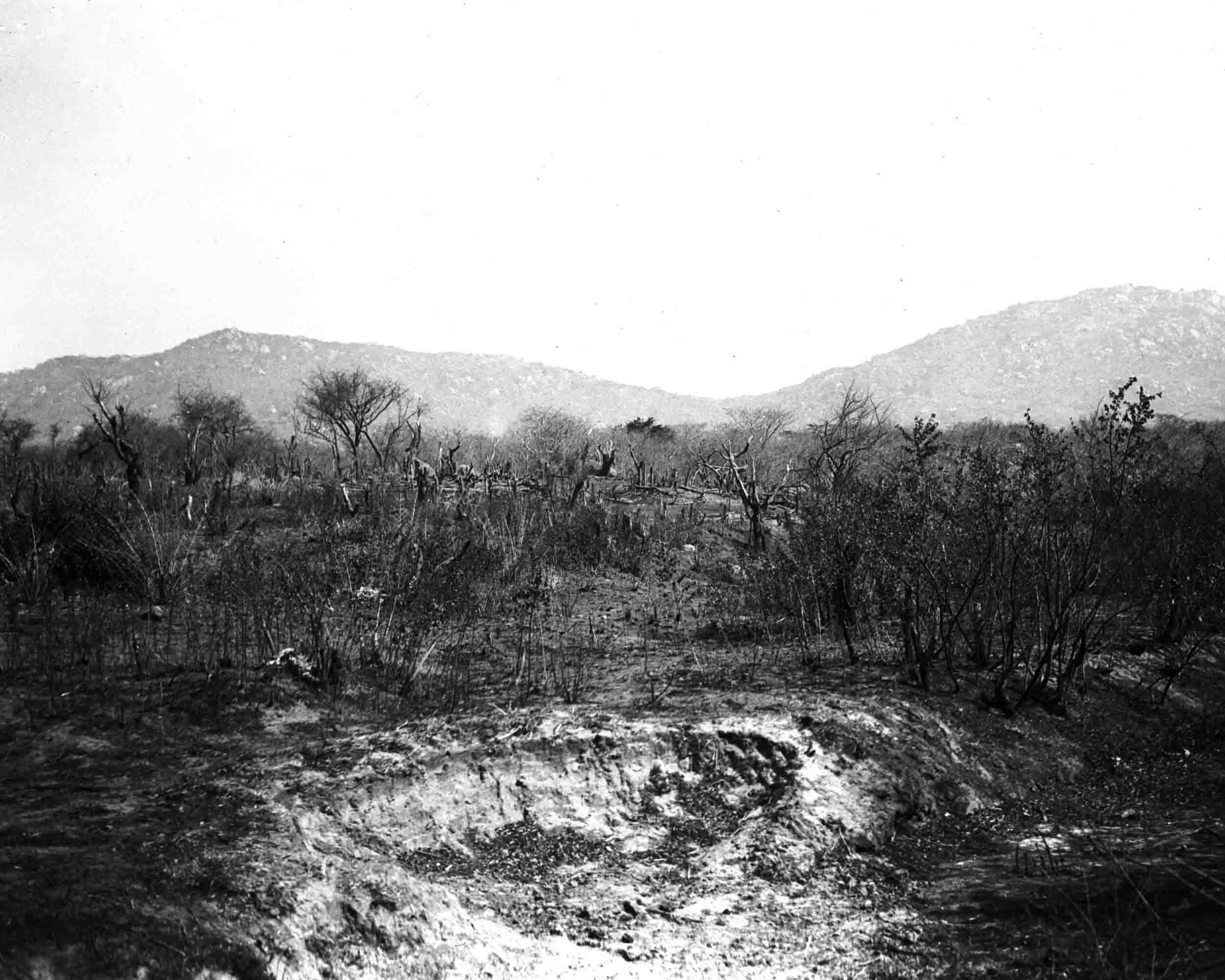 The Battlefield at Lula-Rugaro, today Lugalo (more then 15 years after the combat).